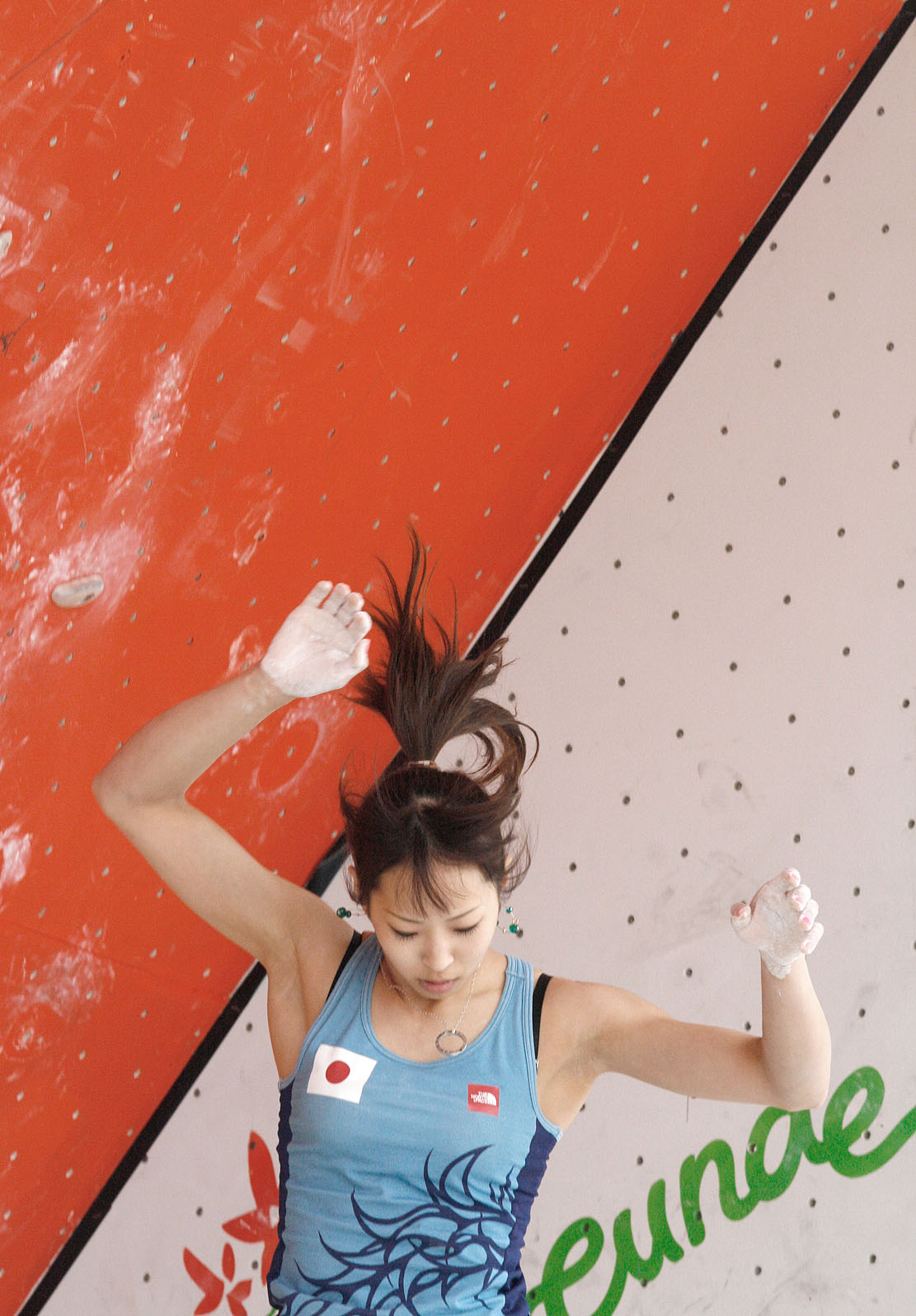 Akiyo Noguchi during the semi-finals at the IFSC Boulder Worldcup Vienna 2010.